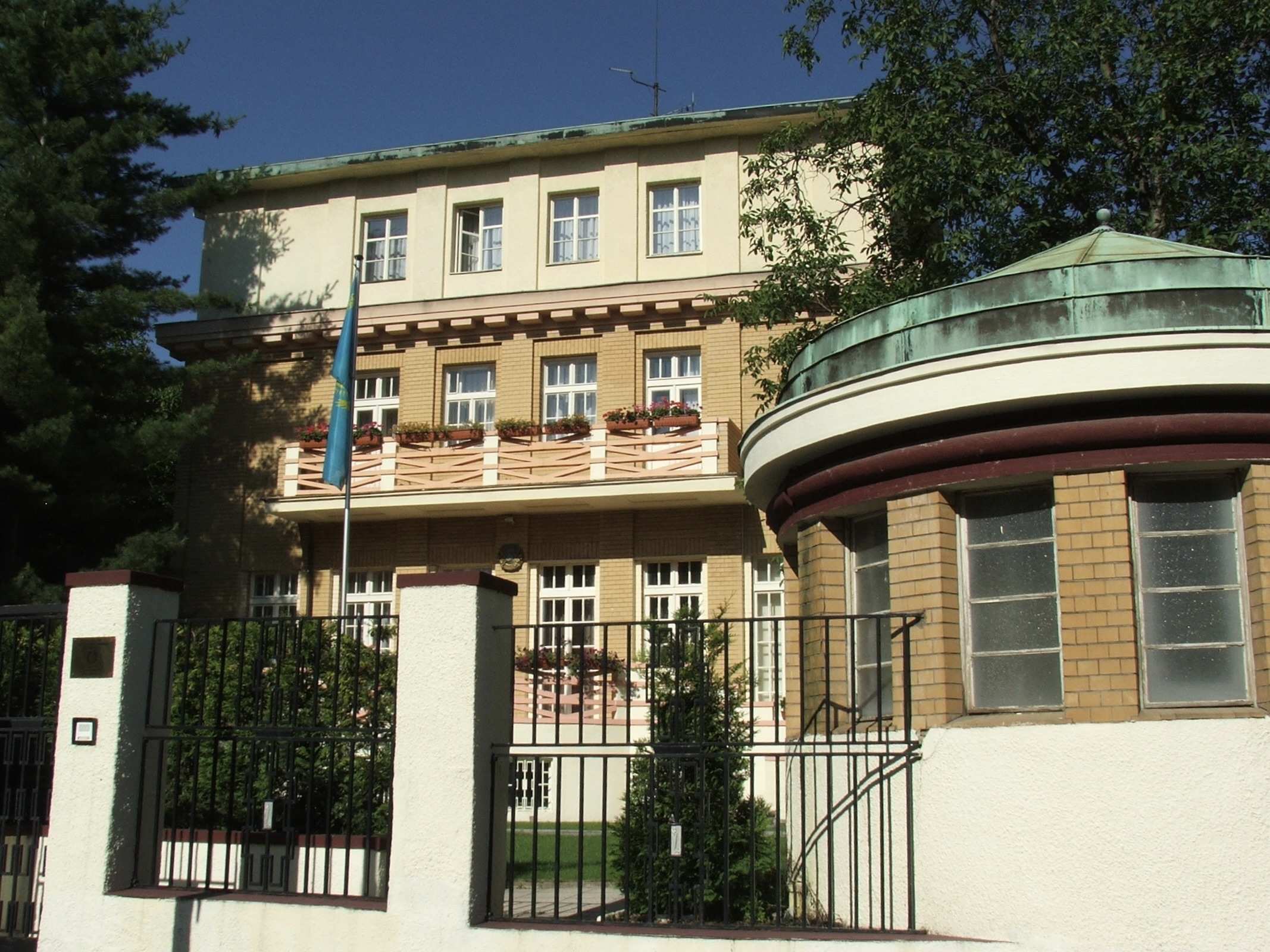 Embassy of Kazakhstan in Prague, Czechia